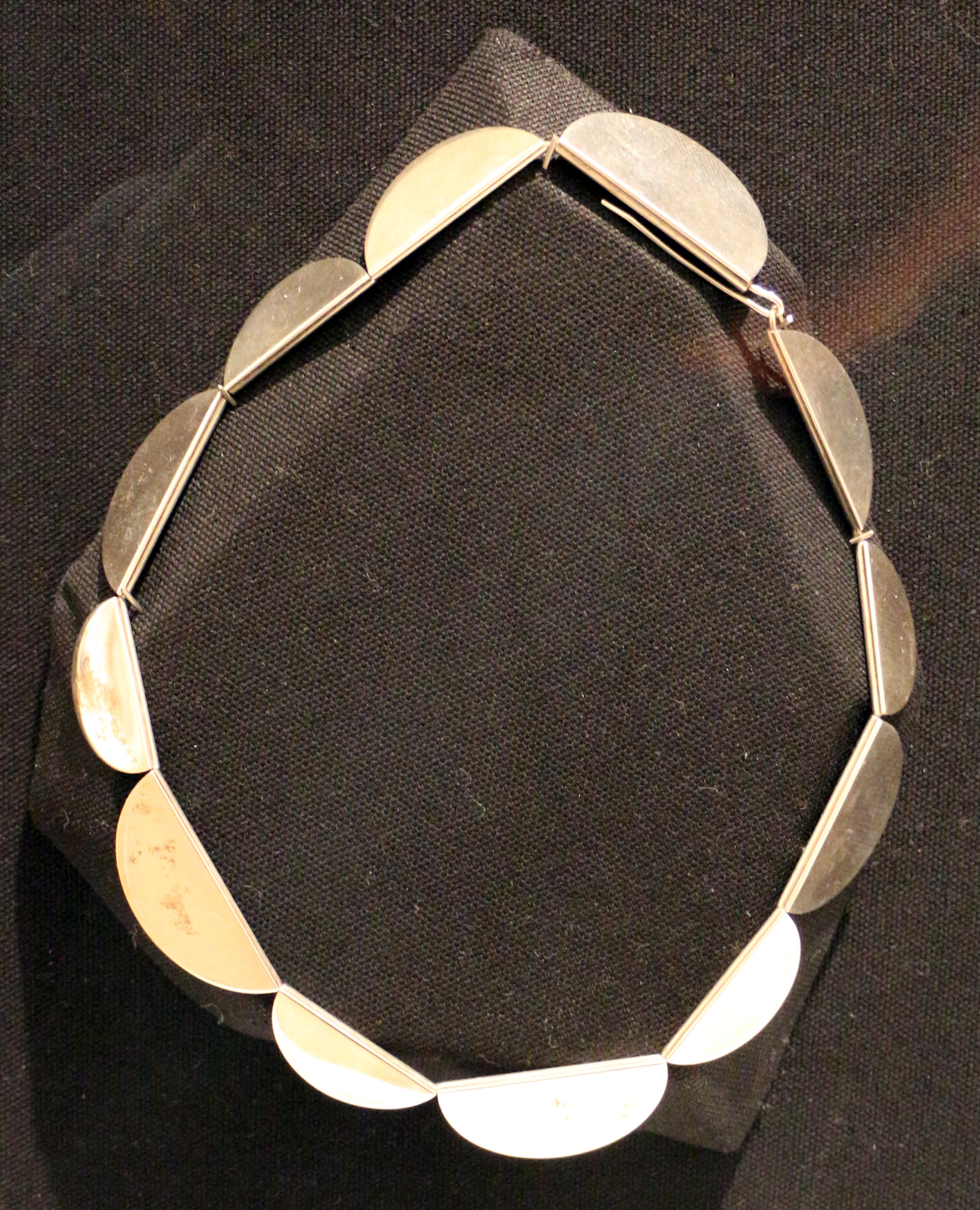 Metalware in the Milwaukee Art Museum